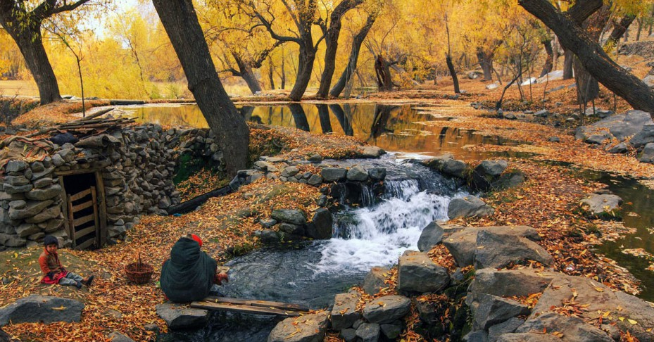 It is a Small river that flows near Khaplu